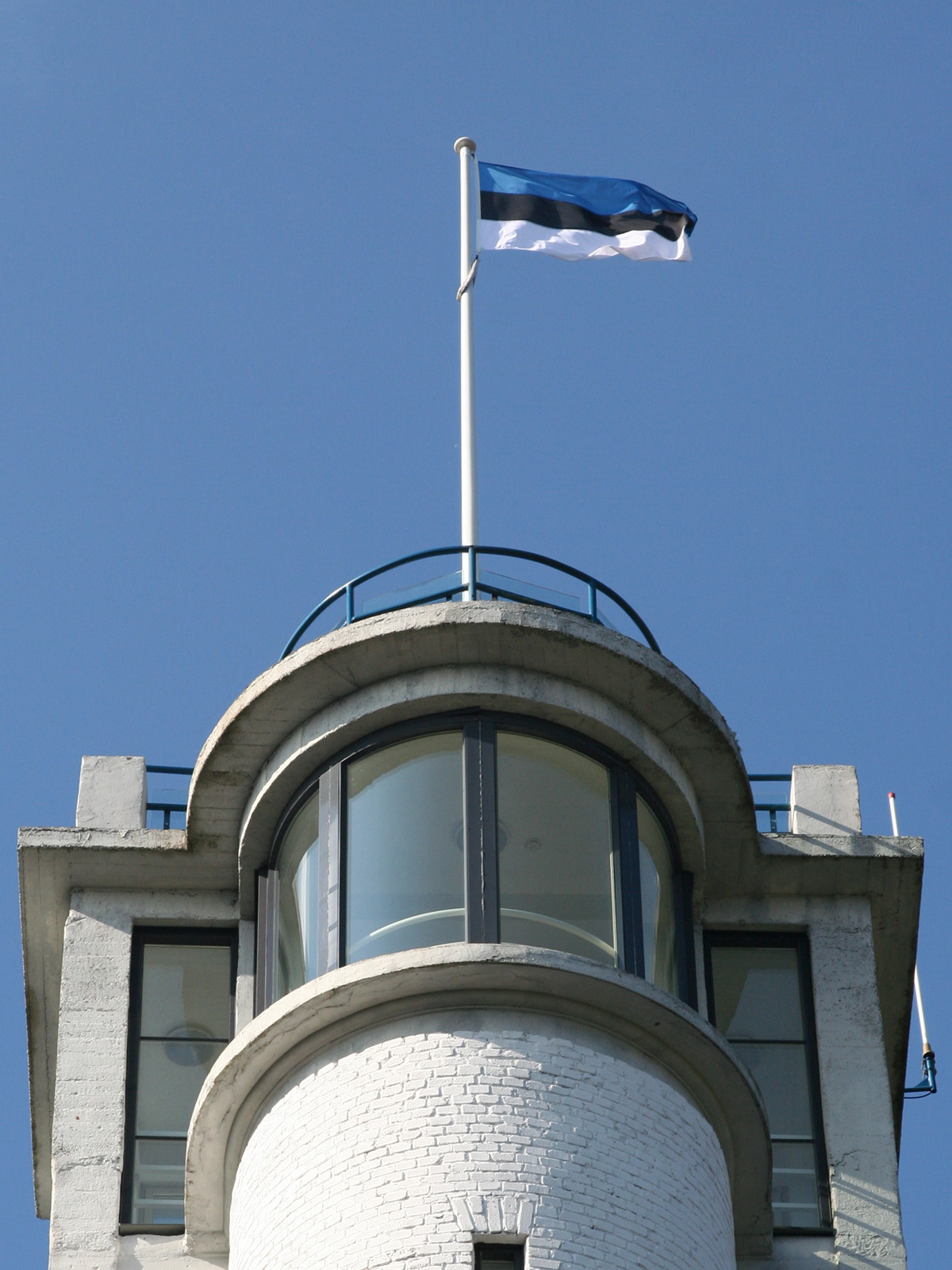 Flag of Estonia on top of Suur Munamagi view tower, the highest point in Estonia and Baltic states, at 318 m above sea level